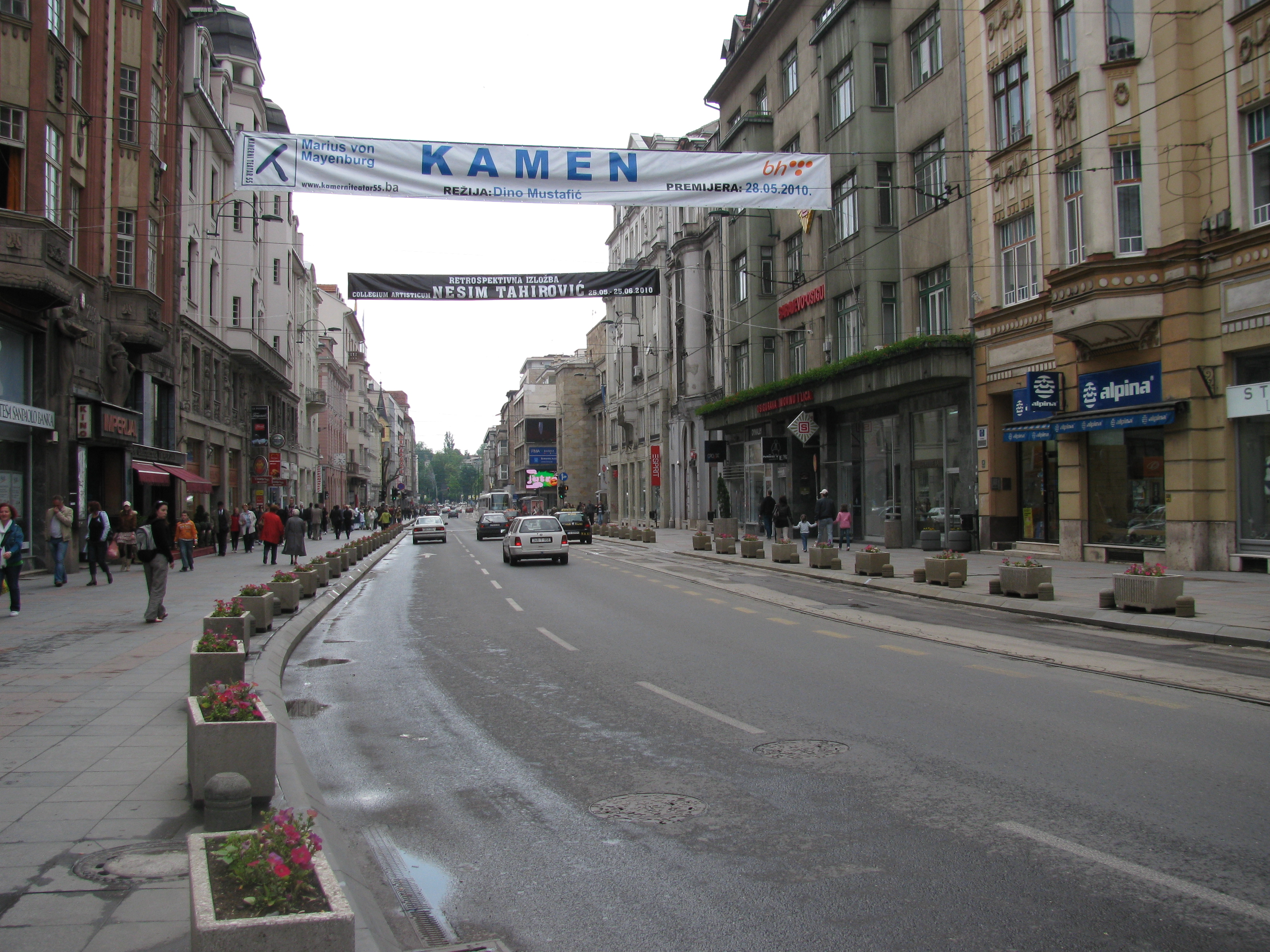 Sarajevo titova ulica